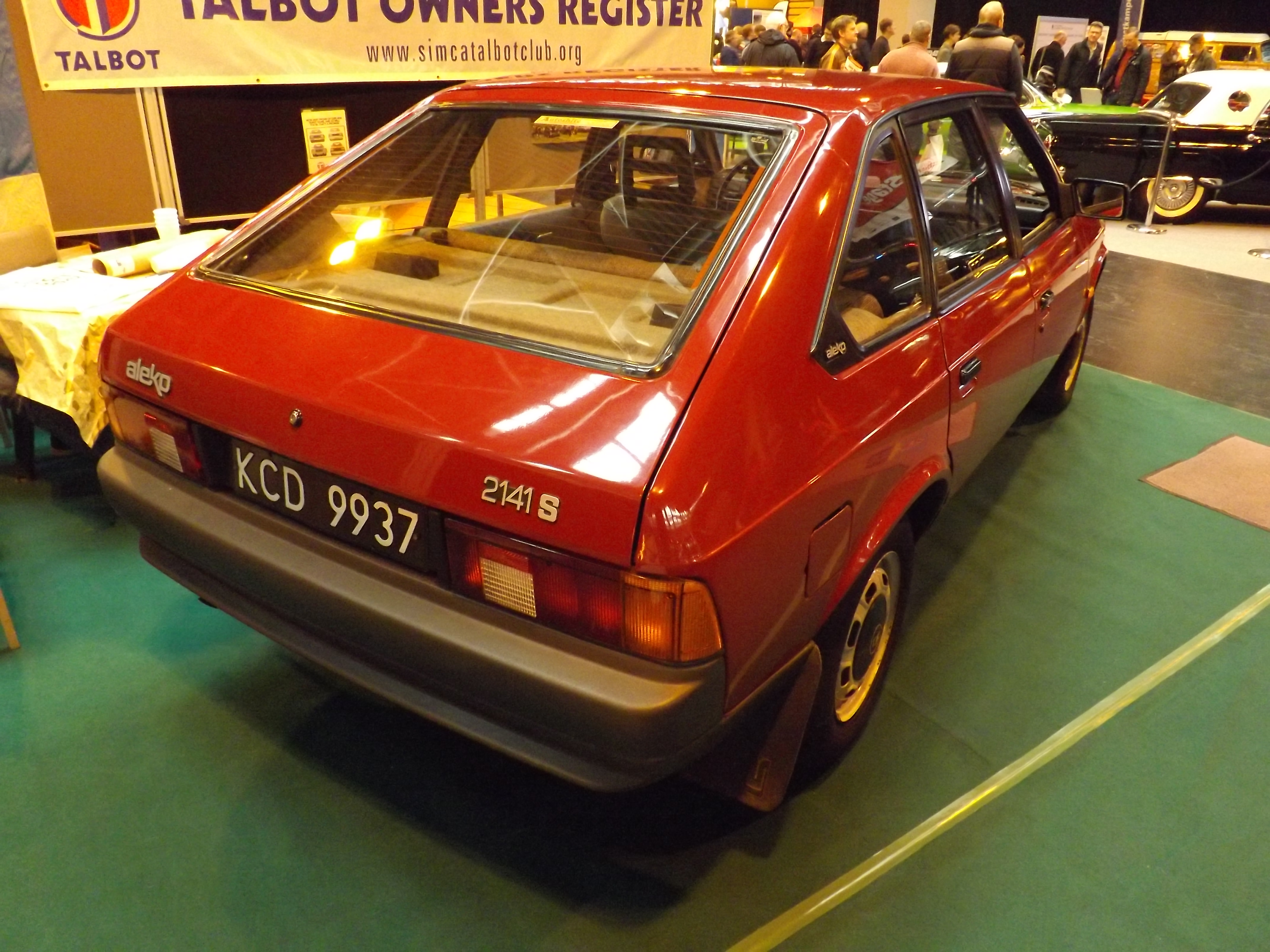 Interestingly parked next to a Chrysler/Talbot Alpine as a contrast. Shares no body panels. Has north-south engine and rear wheel drive.